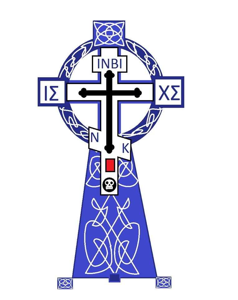 combination of the celtic and orthodox cross in a simple design of pixels, golgotan cross.